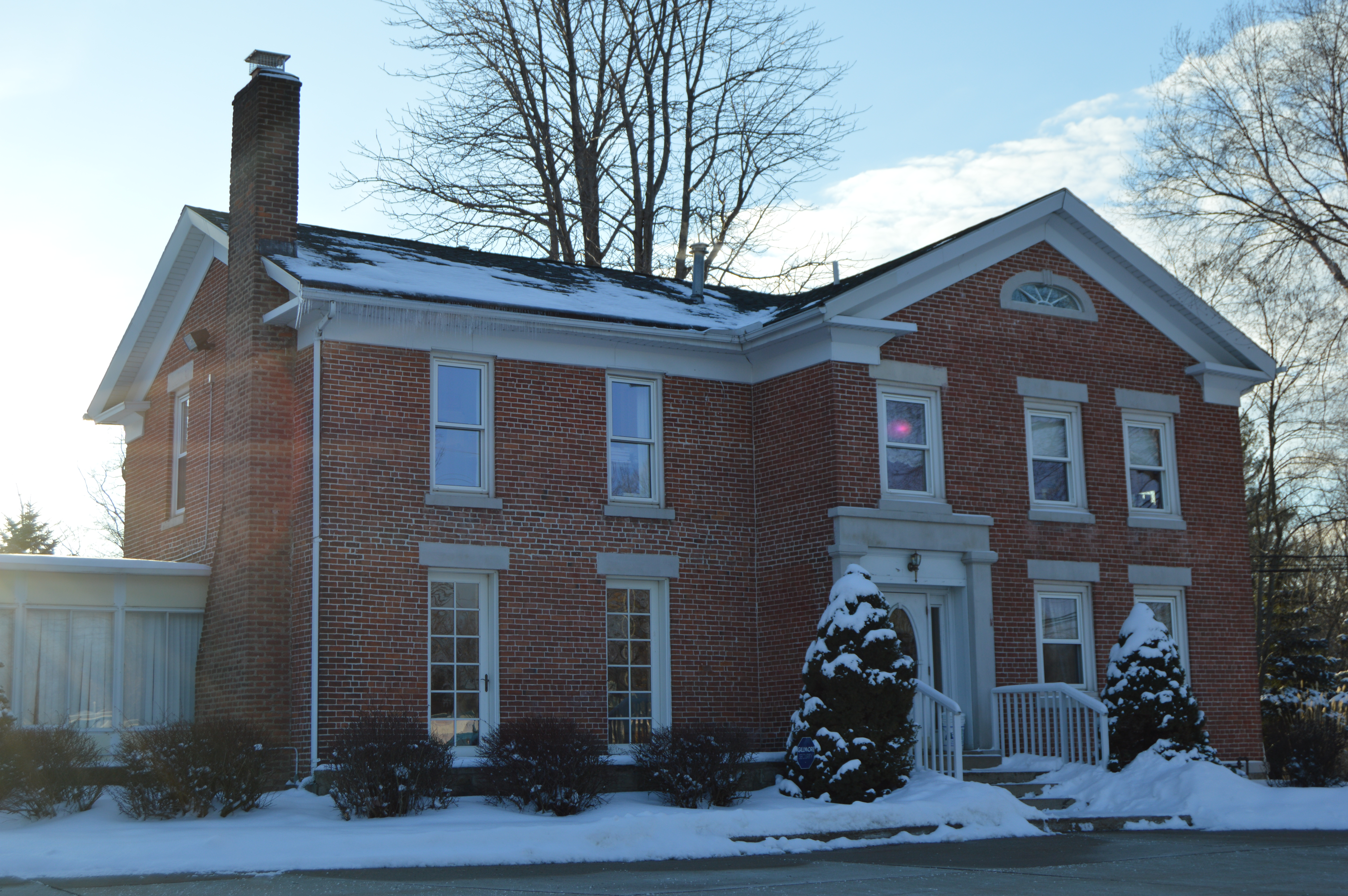 Front and southern side of the Alonzo Drake House, located at 24262 Broadway in Oakwood, Ohio, United States. Built in 1843, it is listed on the National Register of Historic Places.